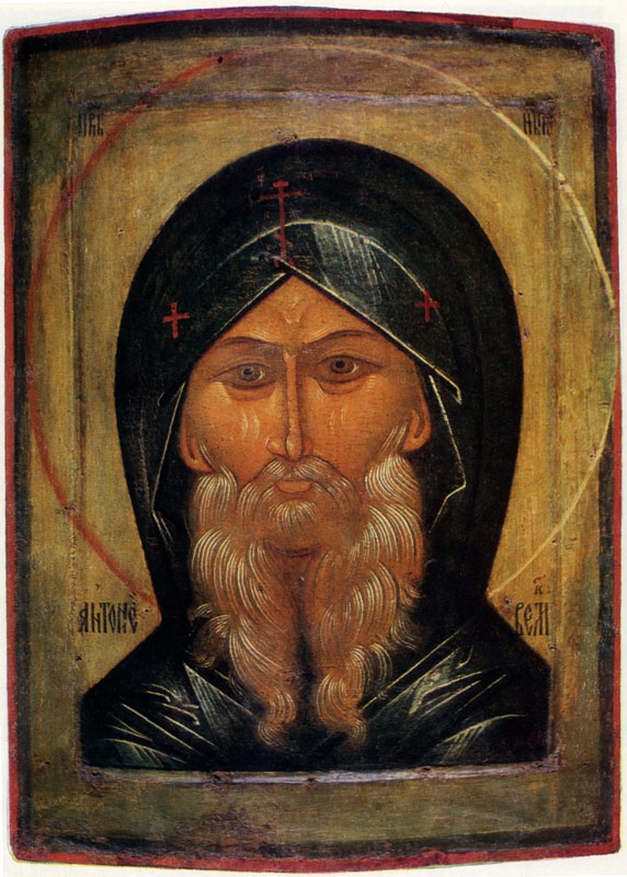 An icon of Saint Anthony the Great (also known as Saint Anthony of Egypt).